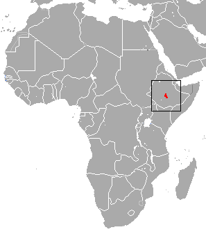 Lucina's Shrew (Crocidura lucina) range